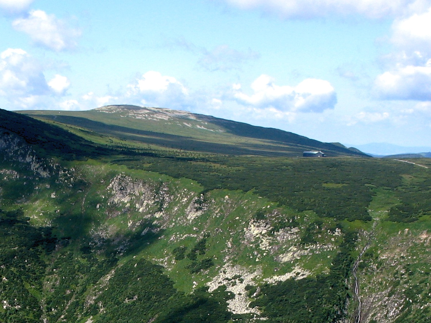 The mountain Luční hora in the Krkonoše Mts., Czech republic